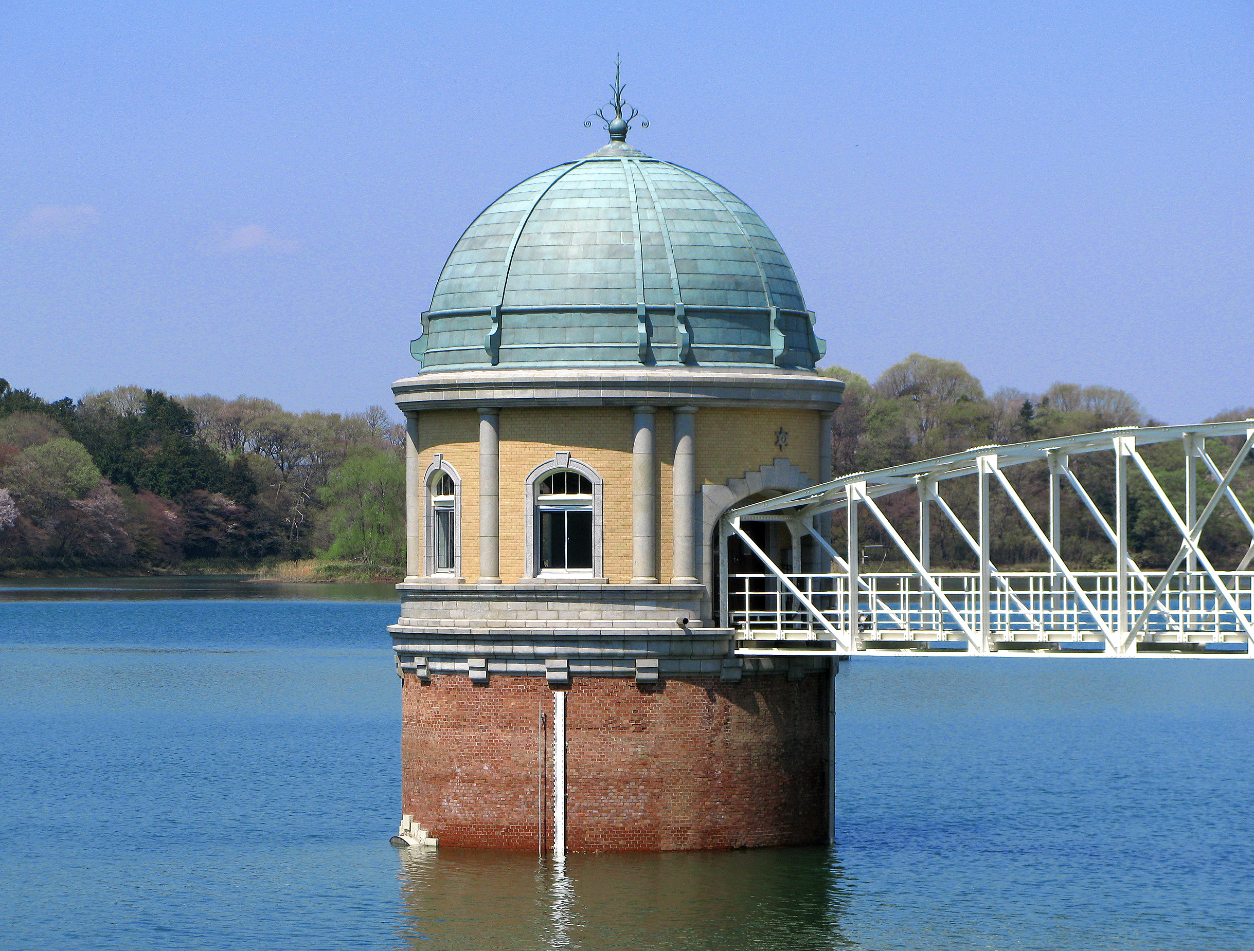 Murayama-shimo The first Intake Tower 1 of Murayama Reservoir. It is the most beautiful intake tower in Japan.